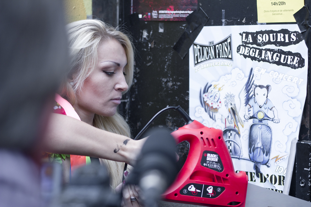 Femen in Paris - 18th sept 2012